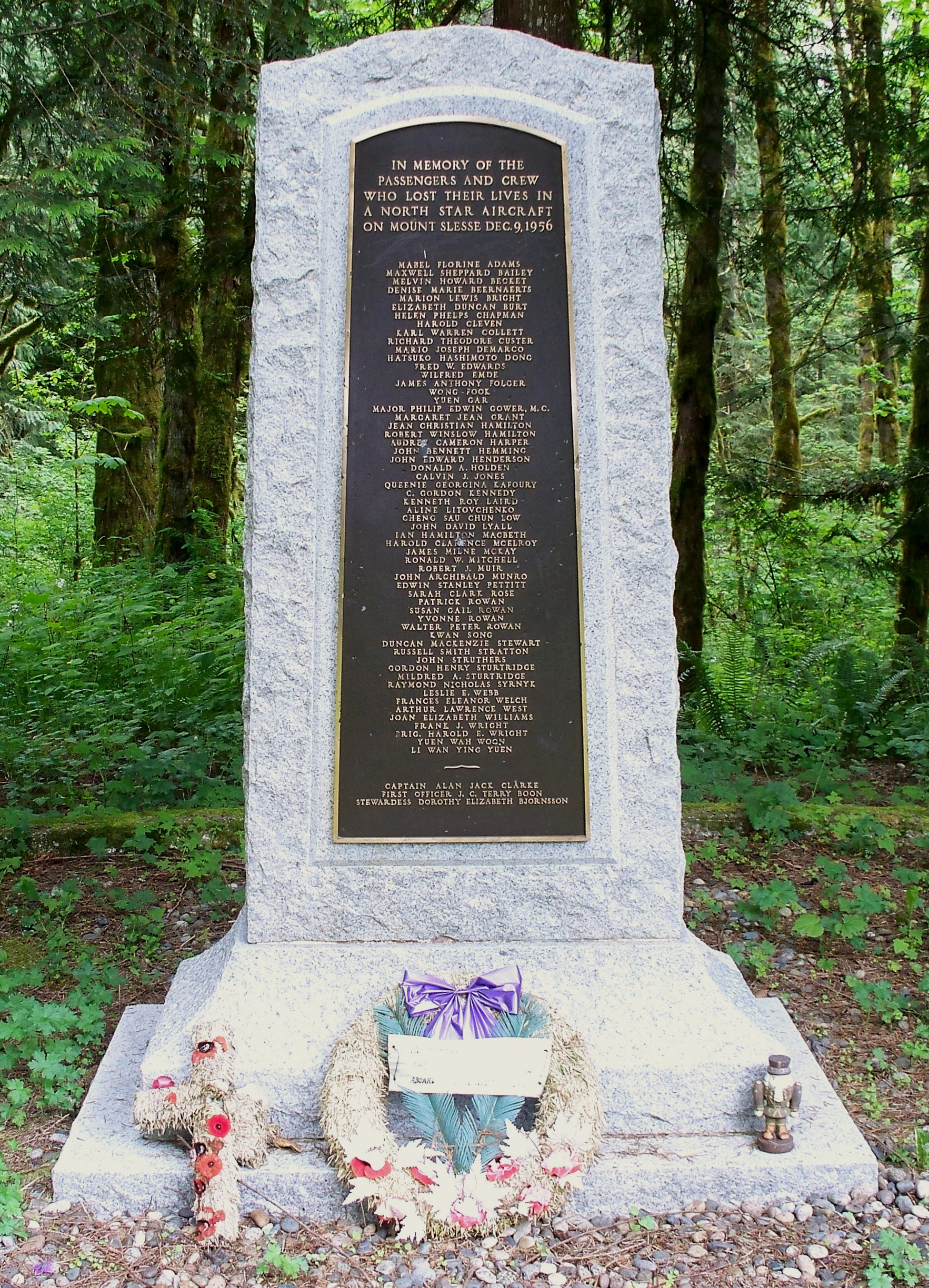 Memorial to the passengers and crew of the crashed Trans-Canada Air Lines Flight 810. Located on Slesse Road, Chilliwack, British Columbia.